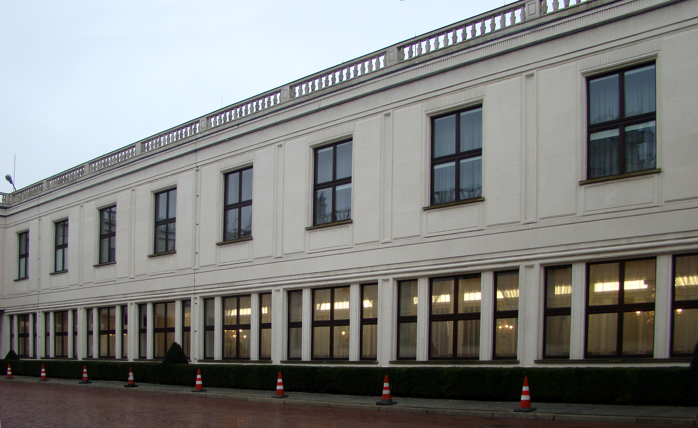 Sejm - Polish Parliament